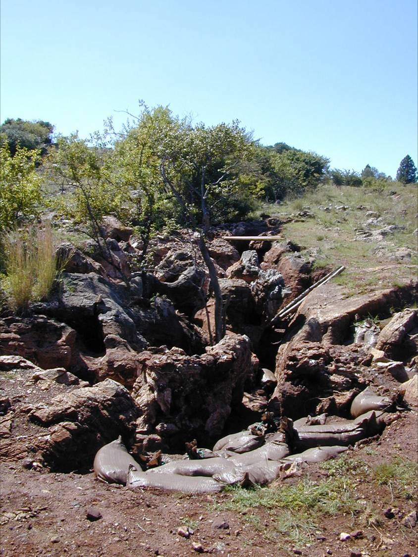 Coopers Cave South Africa from the West